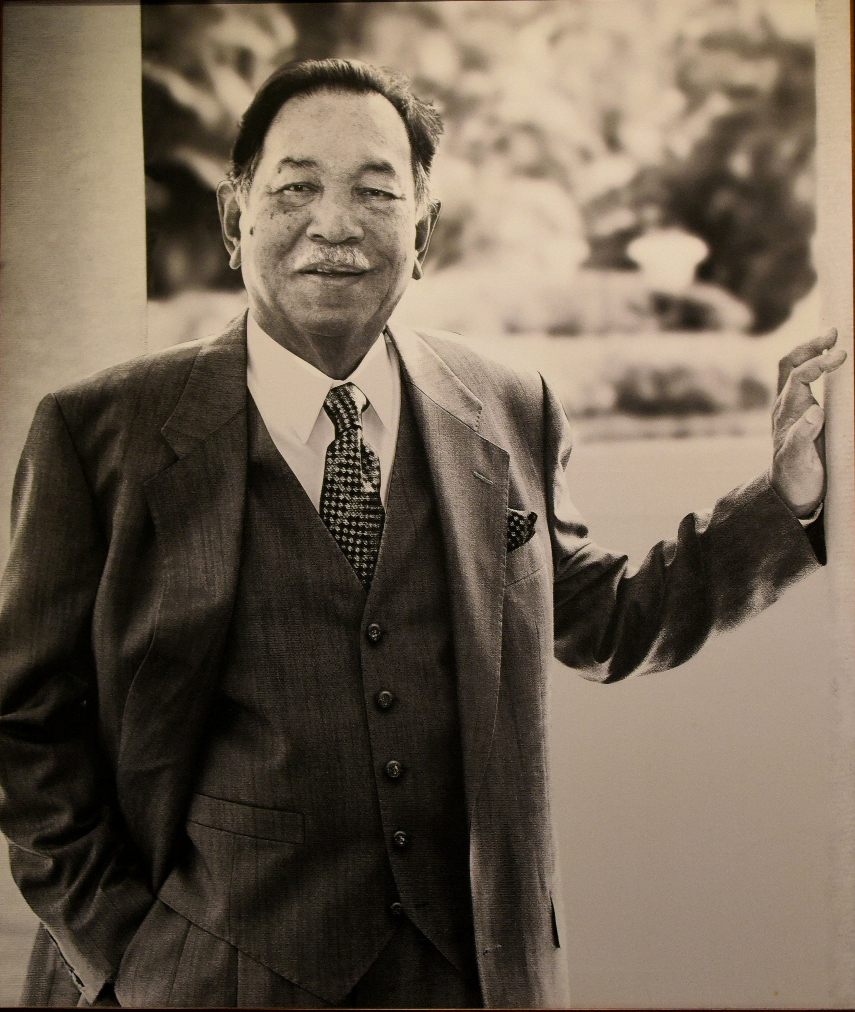 HRH Tuanku Ja'afar ibni Almarhum Tuanku Abdul Rahman, 19 July 1922 – 27 December 2008. The name of the photographer was not mentioned. The original image is © the Tuanku Ja'afar Royal Gallery, Seremban, Negeri Sembilan, Malaysia.